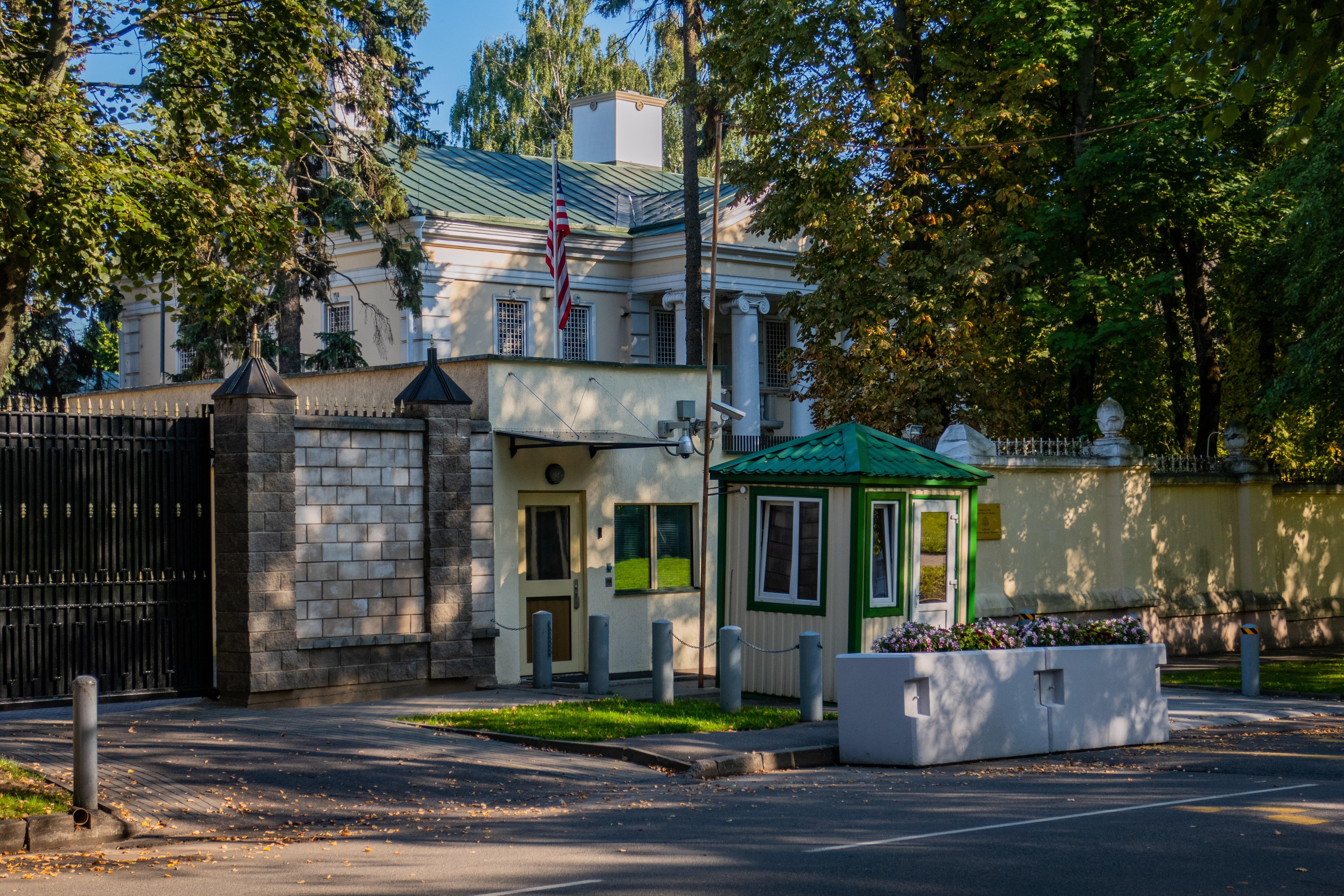 Embassy of the United States of America (USA) in Belarus. Minsk, Belarus